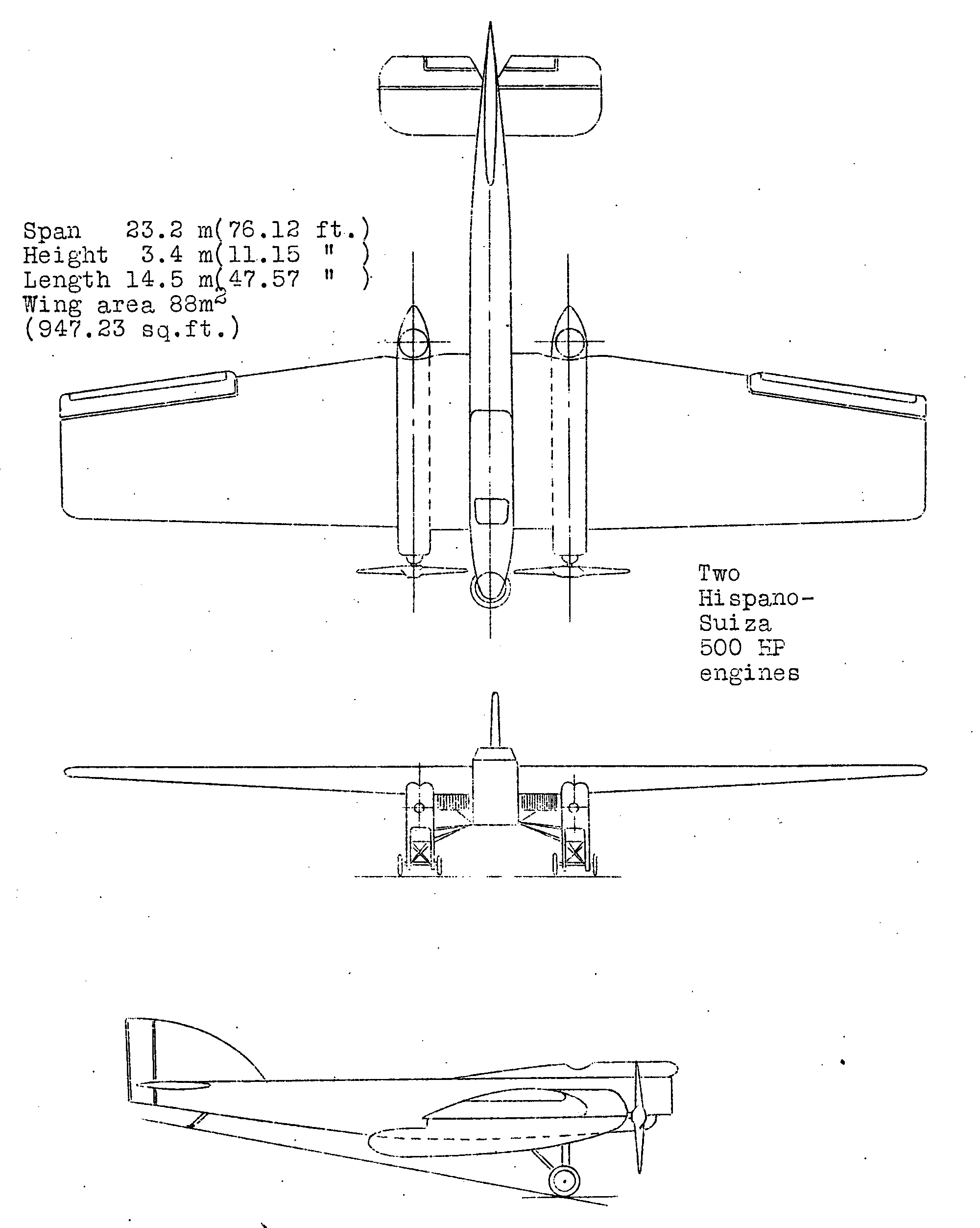 Bleriot 127 3-view drawing NACA Aircraft Circular No.86